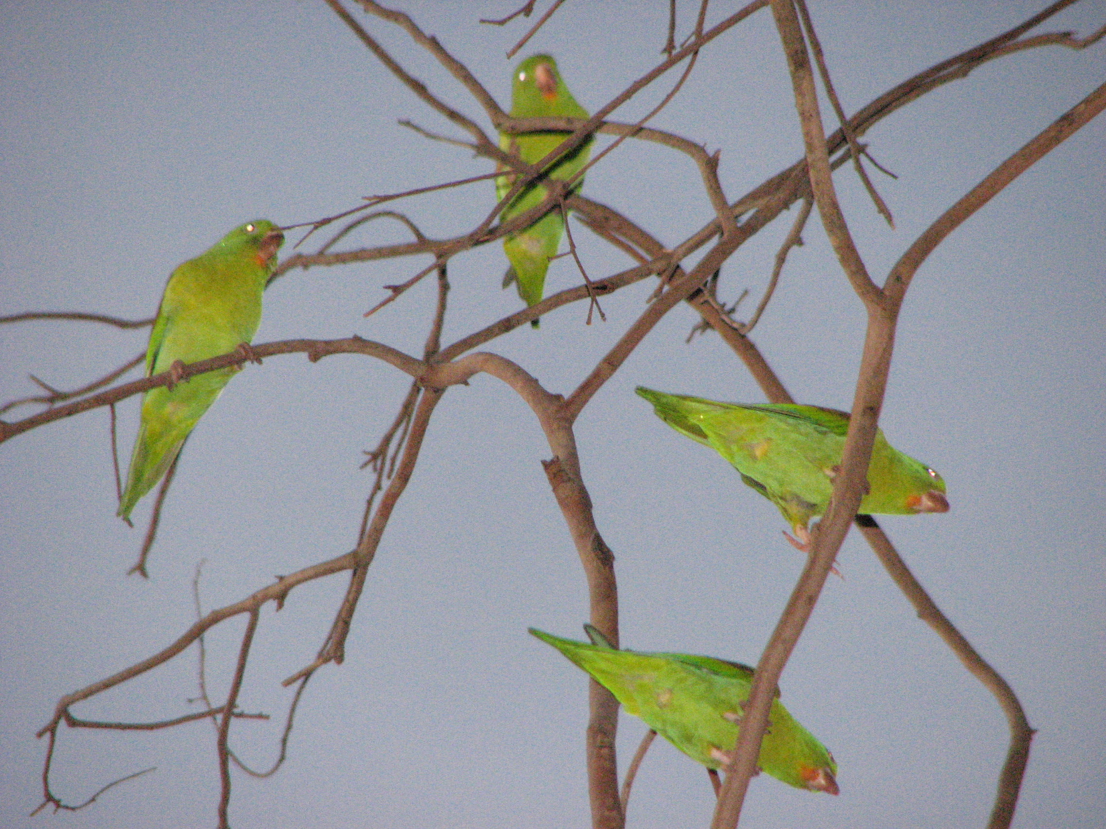 This is the smallest parakeet in El Salvador know as Catalnica, Perico de Lesson, Orange-chinned Parakeet (Brotogeris Jugularis)